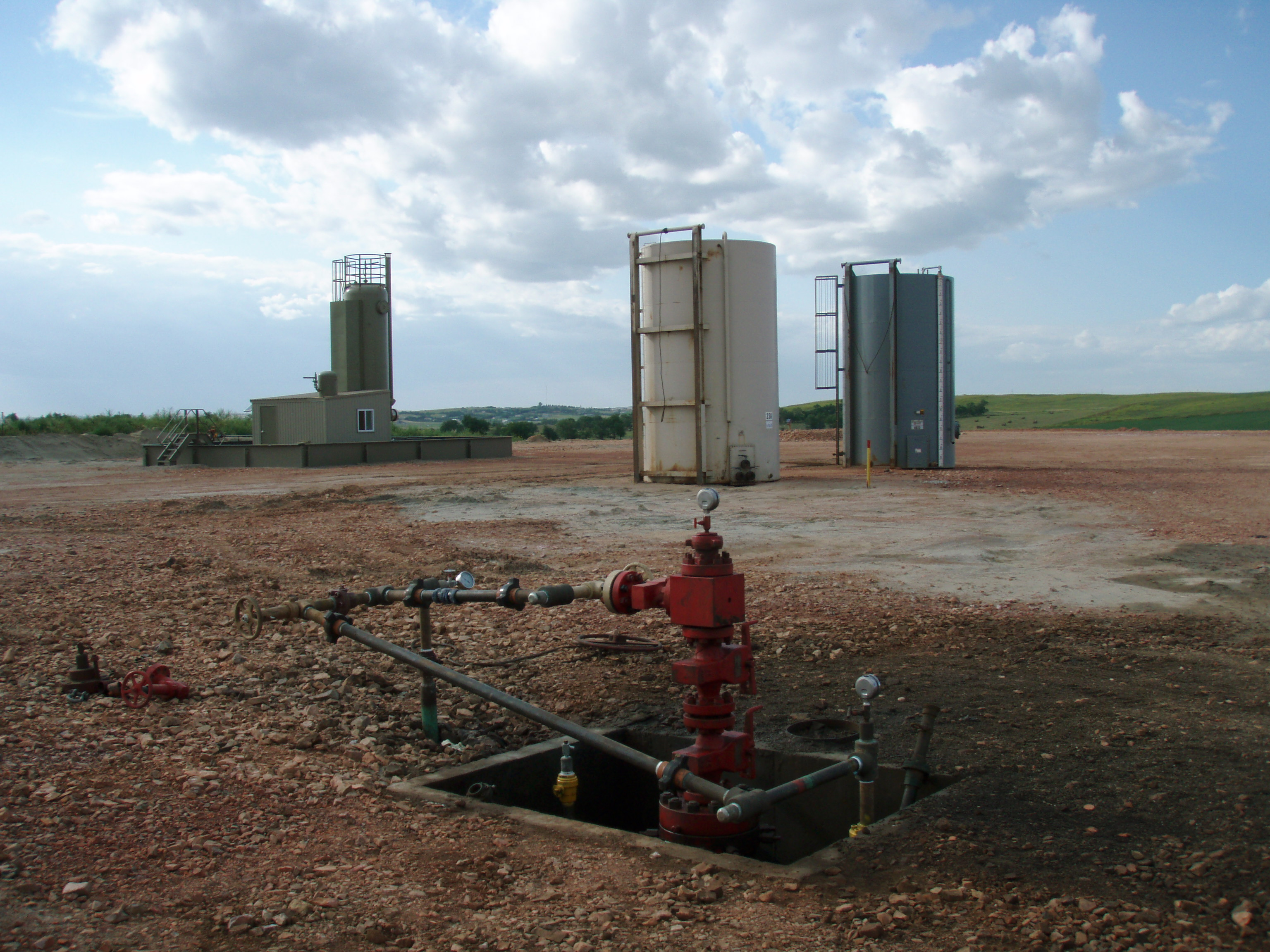 Well head after all the Fracking equipment has been taken off location